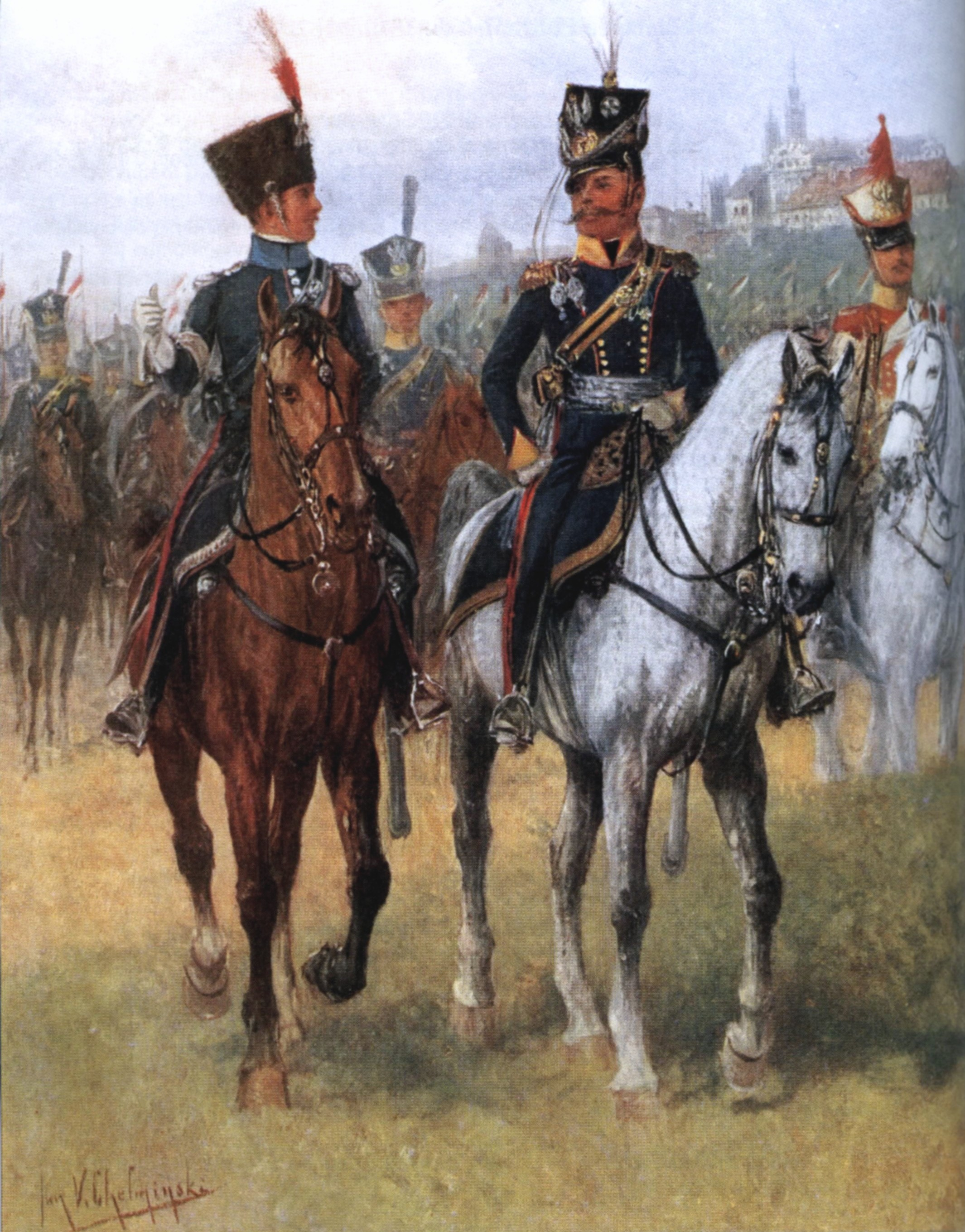 7th Uhlan Regiment of Duchy of Warsaw